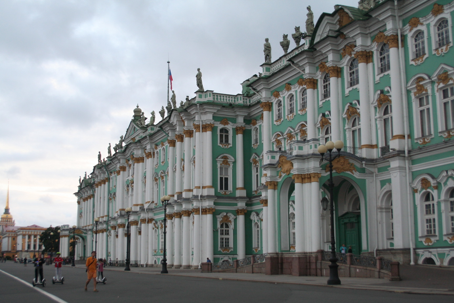 Winter Palace